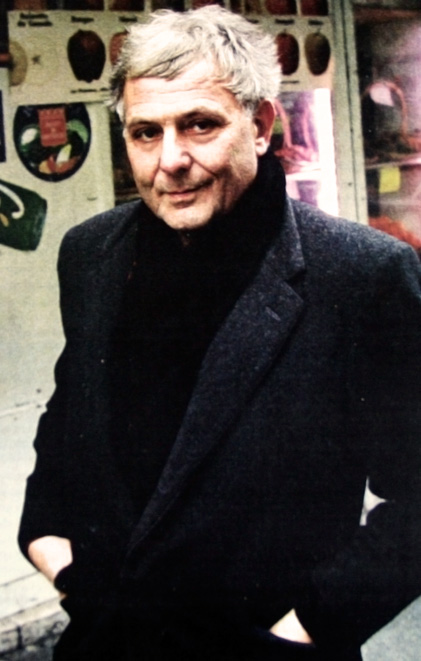 French writer Philippe Sollers in Paris